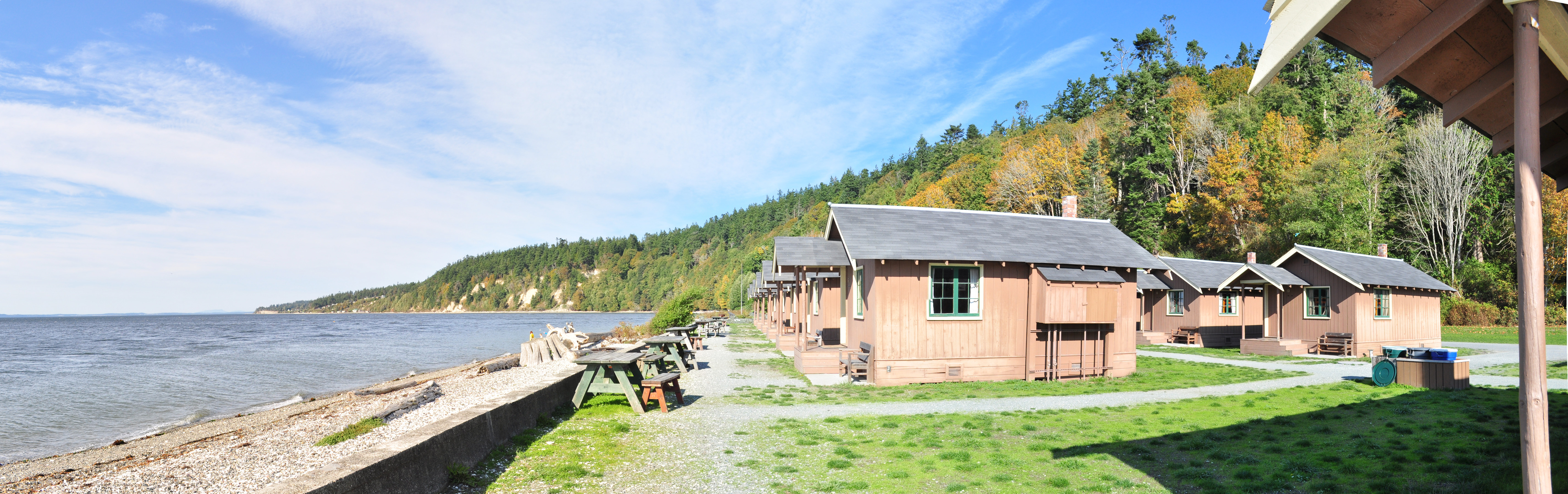 Panoramic view of historic Cama Beach Resort rental cabins and waterfront, Cama Beach State Park, Washington (state), U.S. This image was created with Hugin.